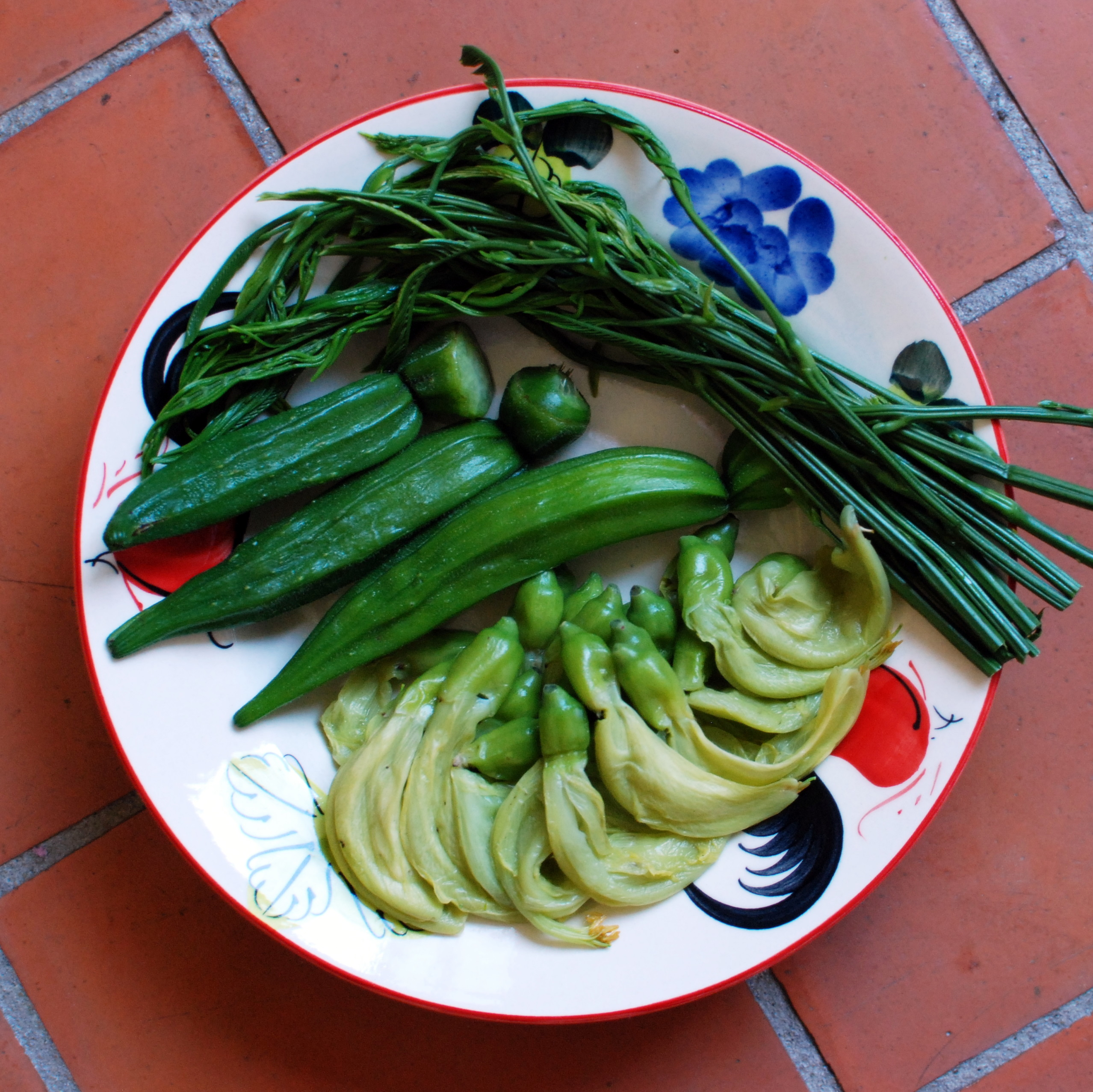 Three lightly steamed vegetables to be eaten with Thai chilli dips such as Nam phrik num and Nam phrik ong. At the top of the photo is chaom (Thai script: ชะอม), which are the young leaves of a certain type of acacia tree. Below that is okra (Thai name: krachiap khiao, Thai script: กระเจี๊ยบเขียว). At the bottom of the photo is dok khae (Thai script: ดอกแค), which are the flowers of a type of Sesbania.